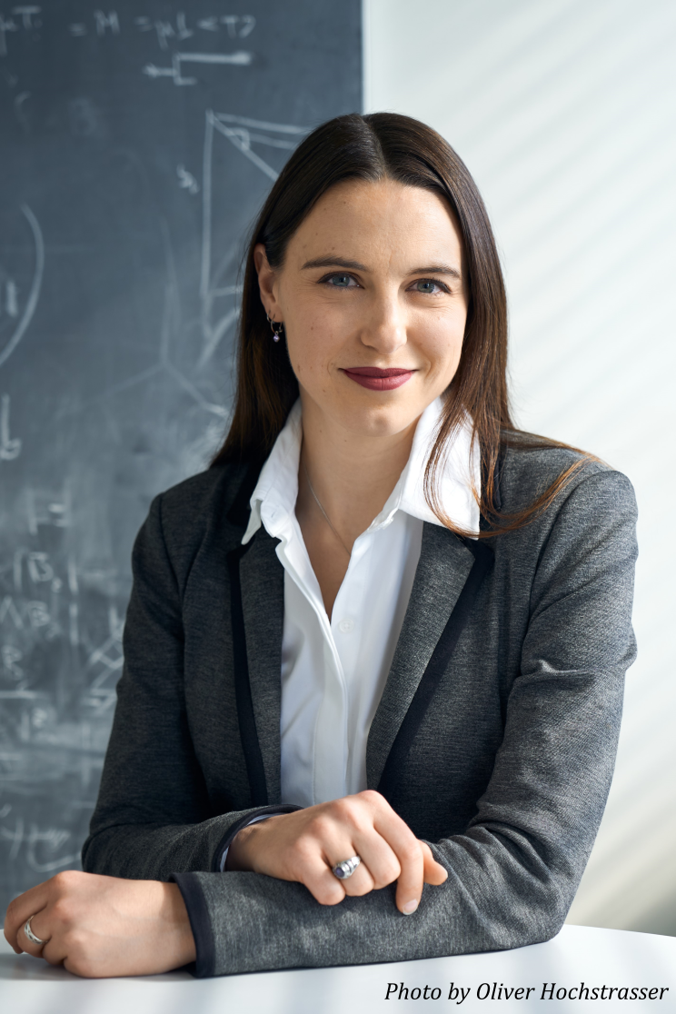 Portrait of Emma Hodcroft